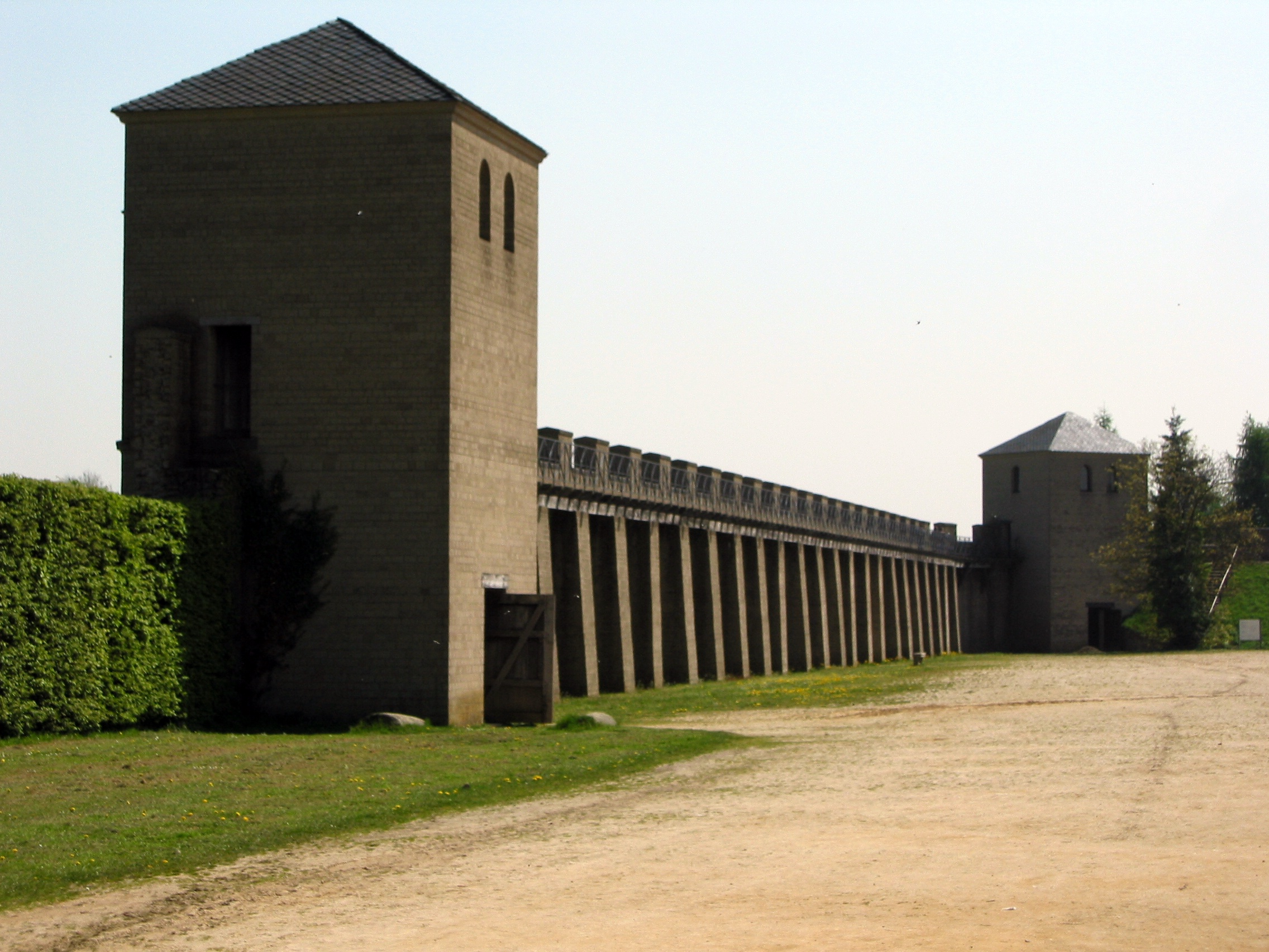 Photo taken April 23, 2005, by Magnus Manske, with expressed verbal permission. Colors/contrast enhanced with Picasa.